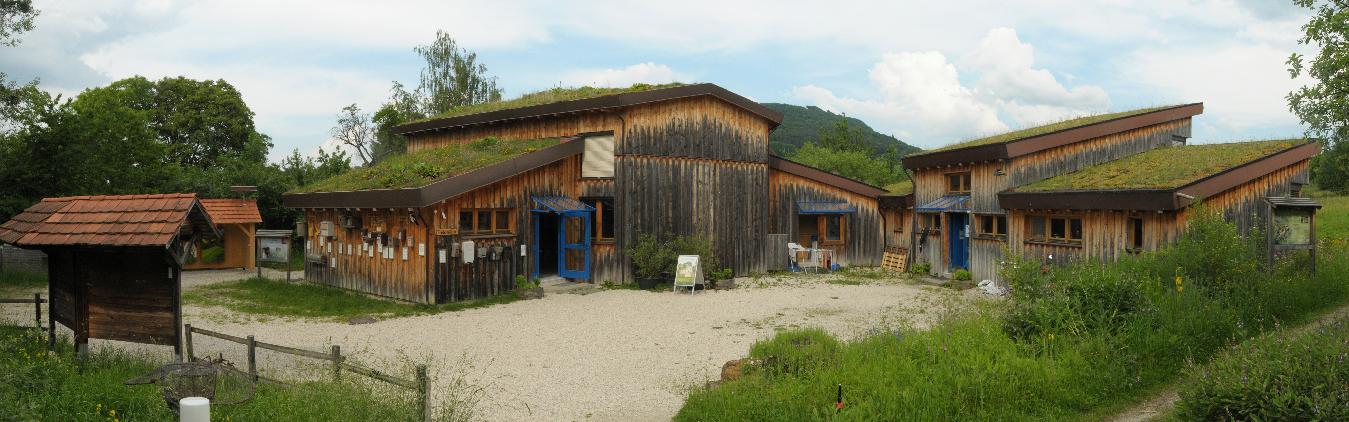 Bird protection center in Mössingen.